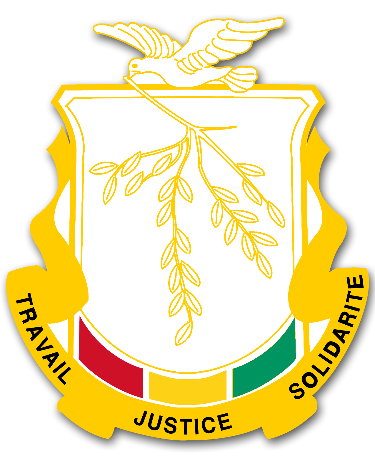 Guinea crest